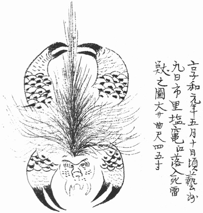 Raijū (a beast which falls to earth in a lightning bolt) from the Kikaishū